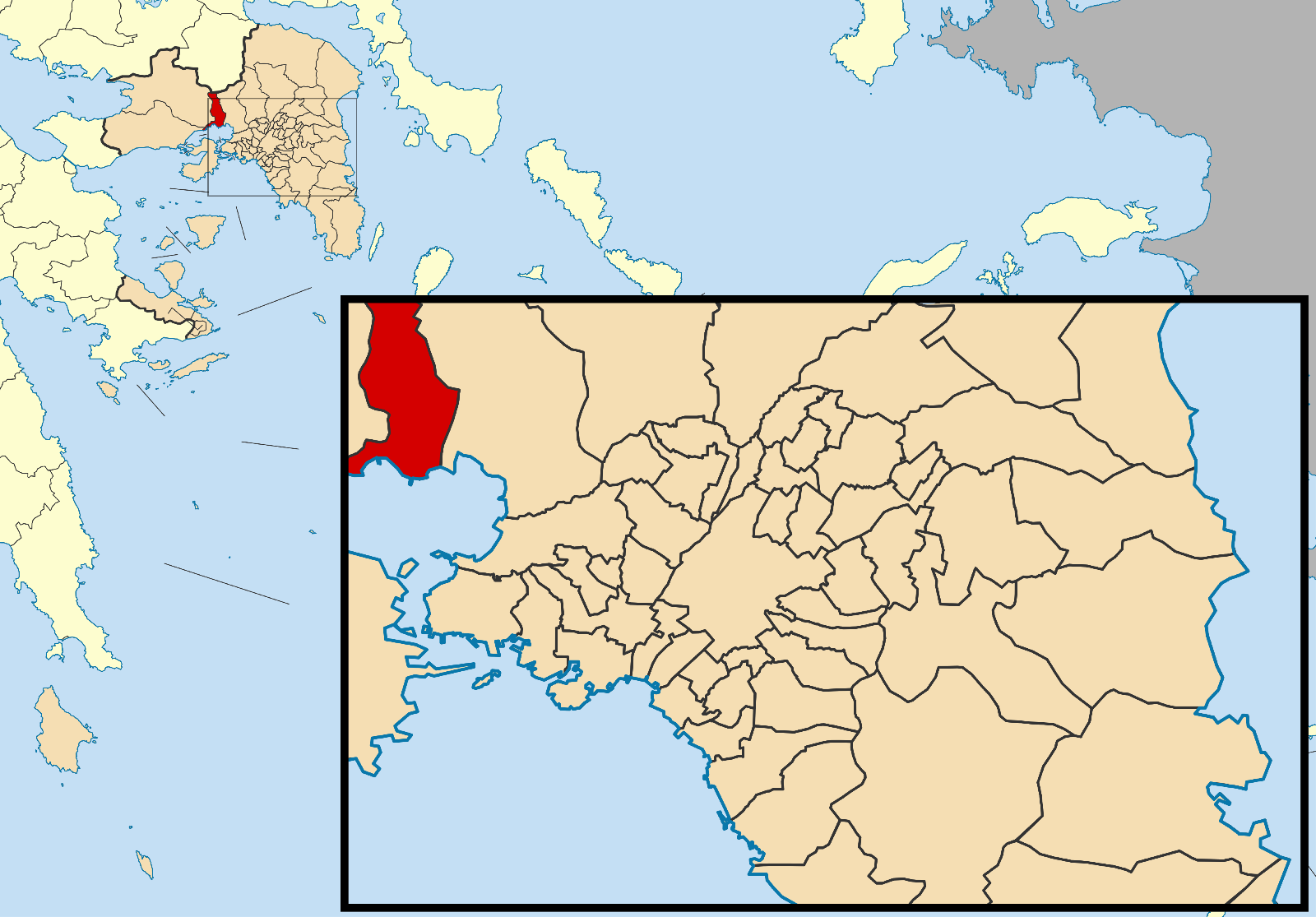 Locator map for Elefsina municipality in Greek region Attica (2011)